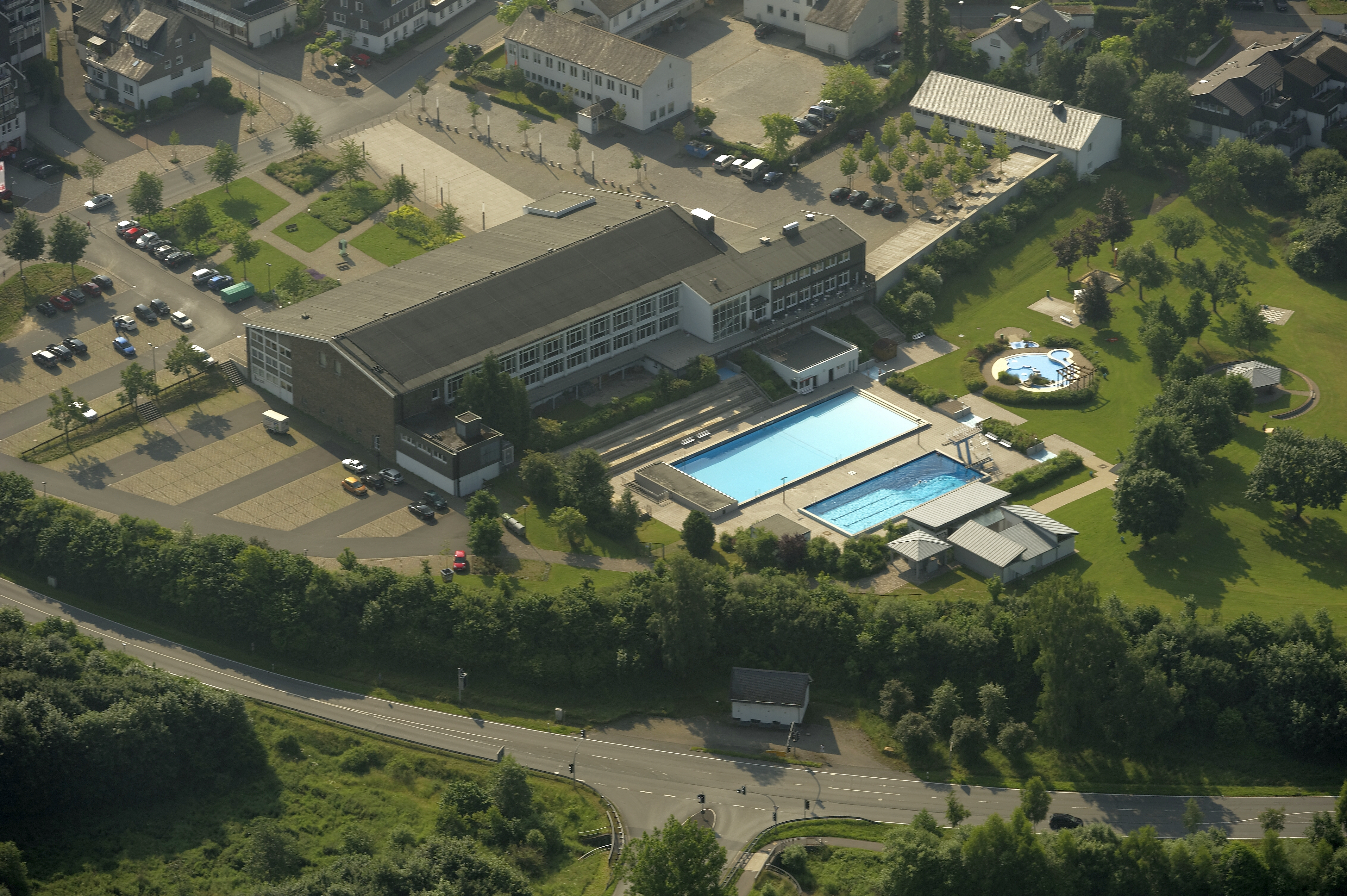 Fotoflug Sauerland-Ost: Schmallenberg, Stadthalle und Wellenfreibad an der Bundesstraße 236 The making of this document was supported by the Community-Budget of Wikimedia Germany.